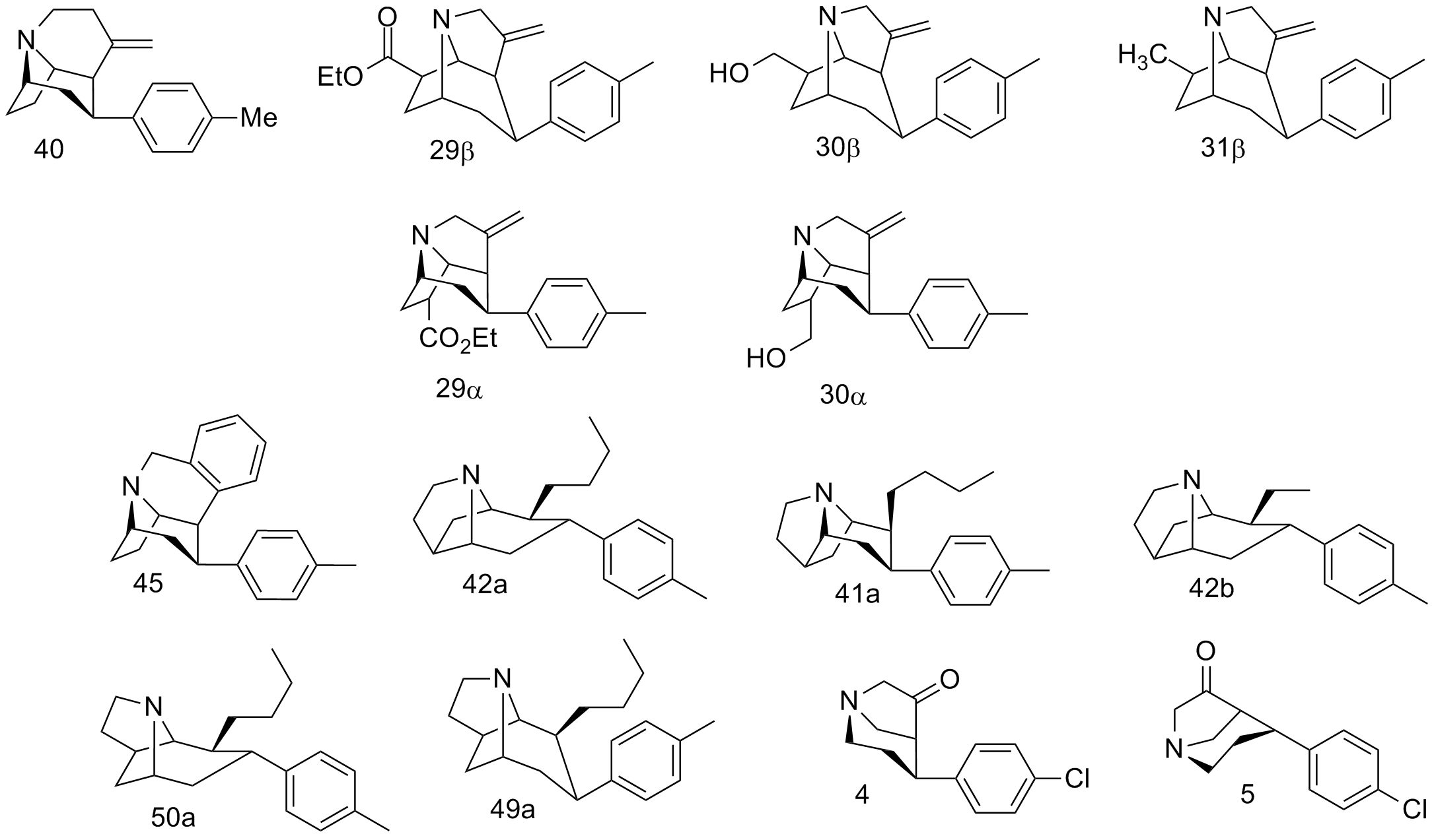 Structures mentioned in US6150376 table of Ki data.